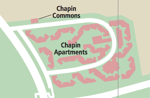 A Portion of the Stony Brook University Map displaying Chapin Appartments